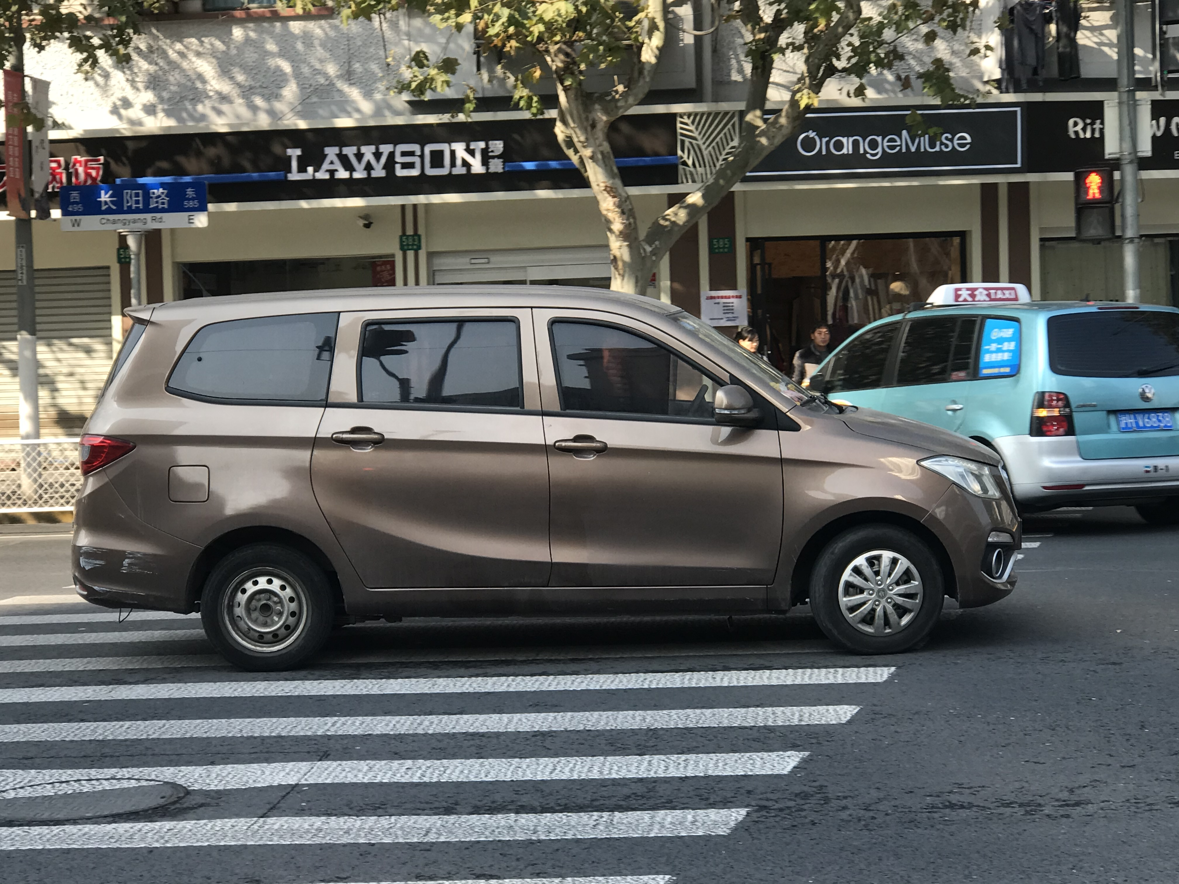 Foton Gratour ix5 side